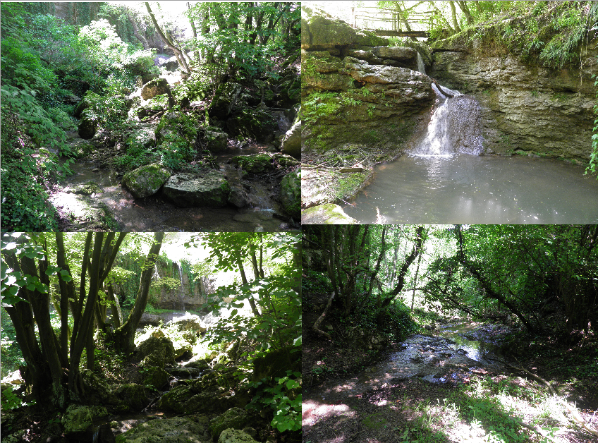 Waterfalls in Veliko Tarnovo,Bulgaria